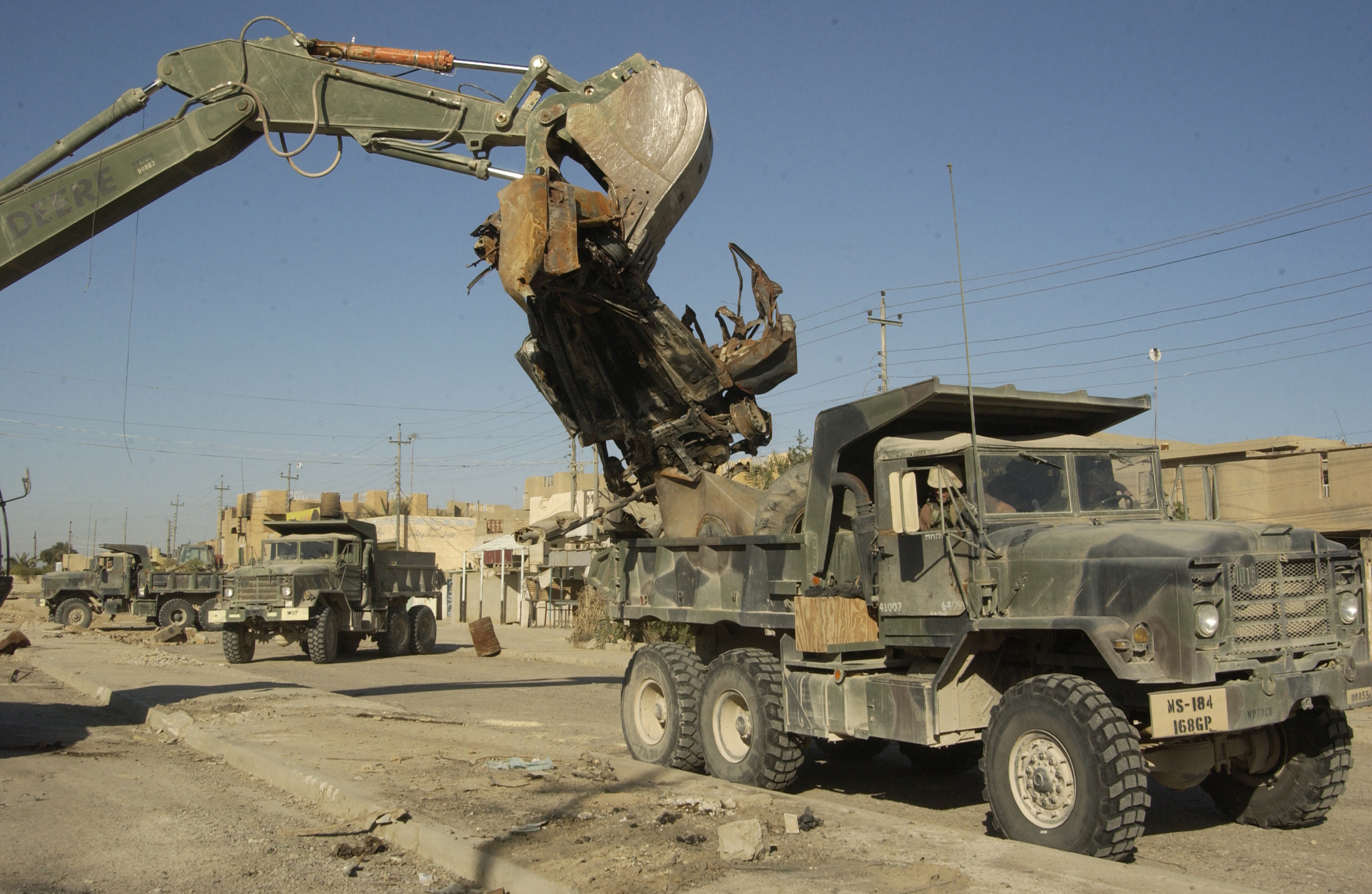 Engineers from the Oklahoma Army National Guard's 120th Engineering Combat Battalion clear debris, dirt and barriers from a mile of local streets near Route 10 in Fallujah, Iraq, on Dec. 5, 2004. The cleanup projects throughout Fallujah are to prepare the area for residents to return.